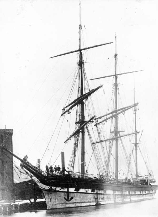 Creator unknown. Black and white photo of Loch Etive docked at Boston. Item held by State Library of Victoria as part of the Malcolm Brodie shipping collection. Image number: H99.220/2291. Format: photograph: gelatin silver; 20.4 x 15.4 cm. Taken sometime between 1904 and 1914.